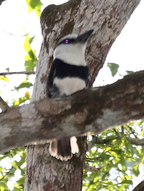 White-necked Puffbird (Notharchus hyperrhynchus). Taken in Panama.